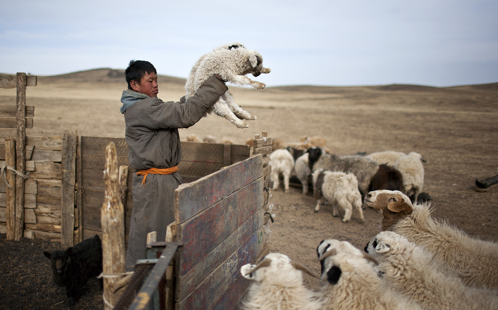 Mother goats gather anxiously around as a young herder delivers kids for feeding.